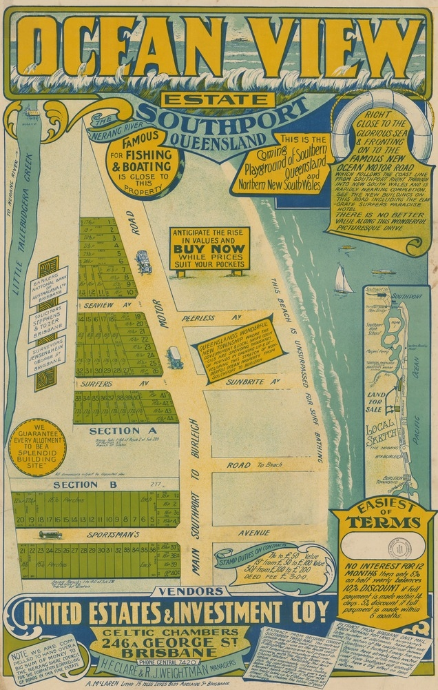 Creator: United Estates & Investment Co., Land Agents ; Jensen & Hein, Surveyors. Location: Southport, Gold Coast, Queensland. Description: 73 x 48 cm. Map includes conditions of purchase, locality map and a brief description of the land, scenery and attractions. Published by A. McLaren, Lithographer, Brisbane. Read more about SLQ's map collections: View this image at the State Library of Queensland: Information about State Library of Queensland’s collection: You are free to use this image without permission. Please attribute State Library of Queensland.